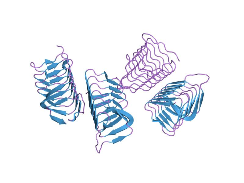 Cartoon representation of the molecular structure of protein registered with 1m8n code.